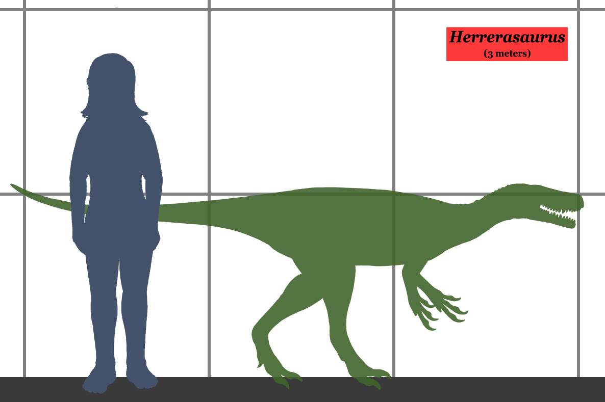 Size comparison between the theropod dinosaur Herrerasaurus and a human.